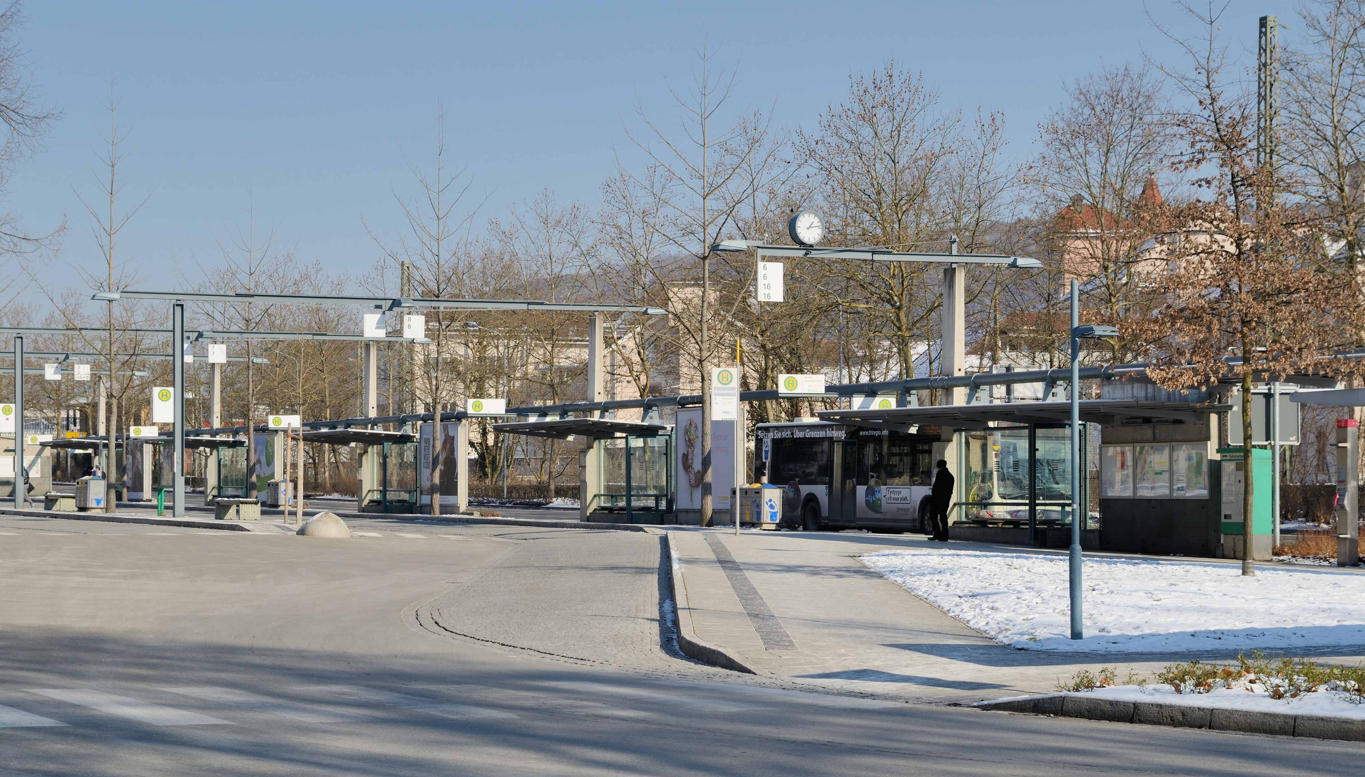 Lörrach: Main bus station